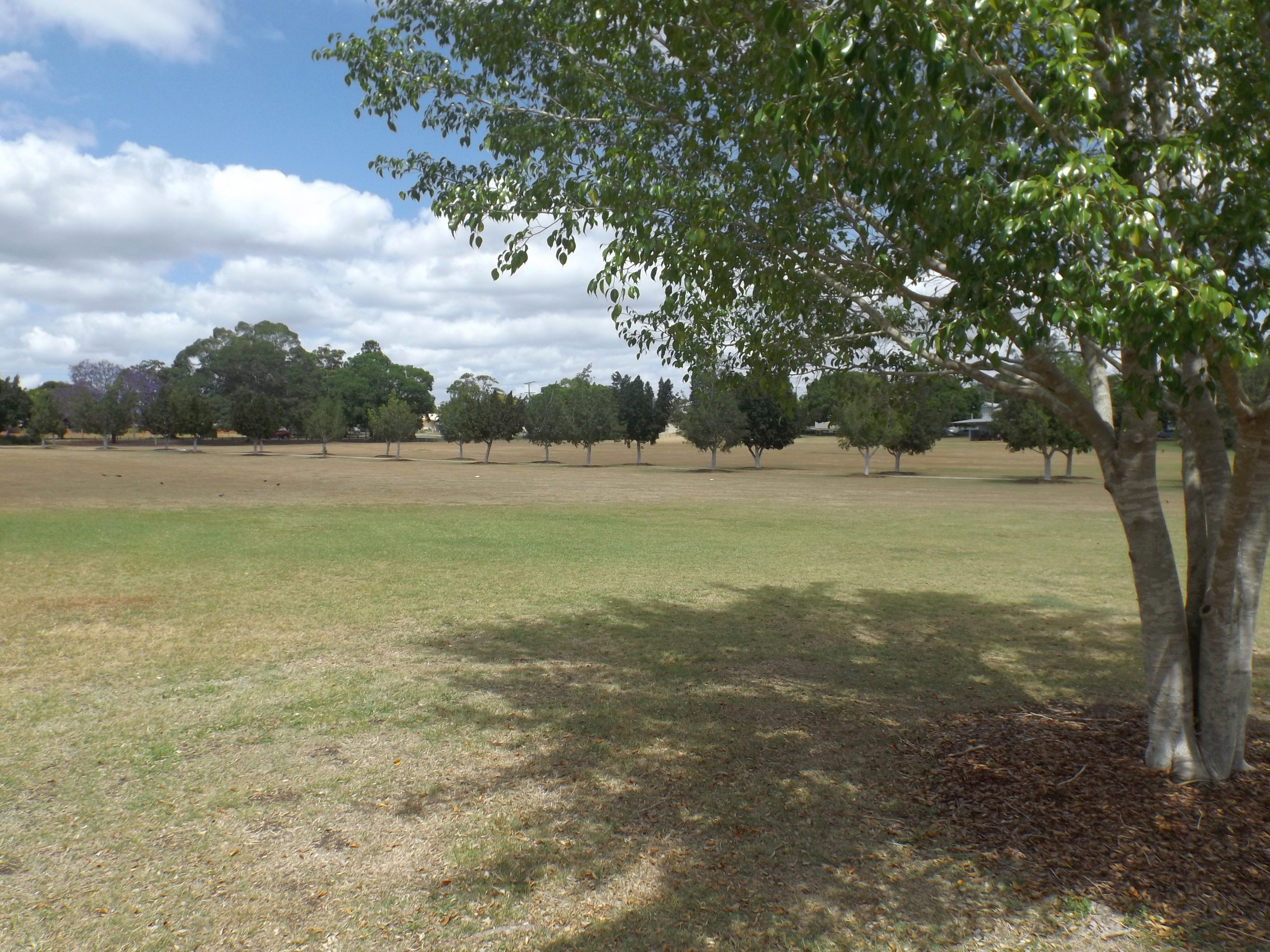 Photo of Cameron Park at Booval, Ipswich, Queensland, Australia.